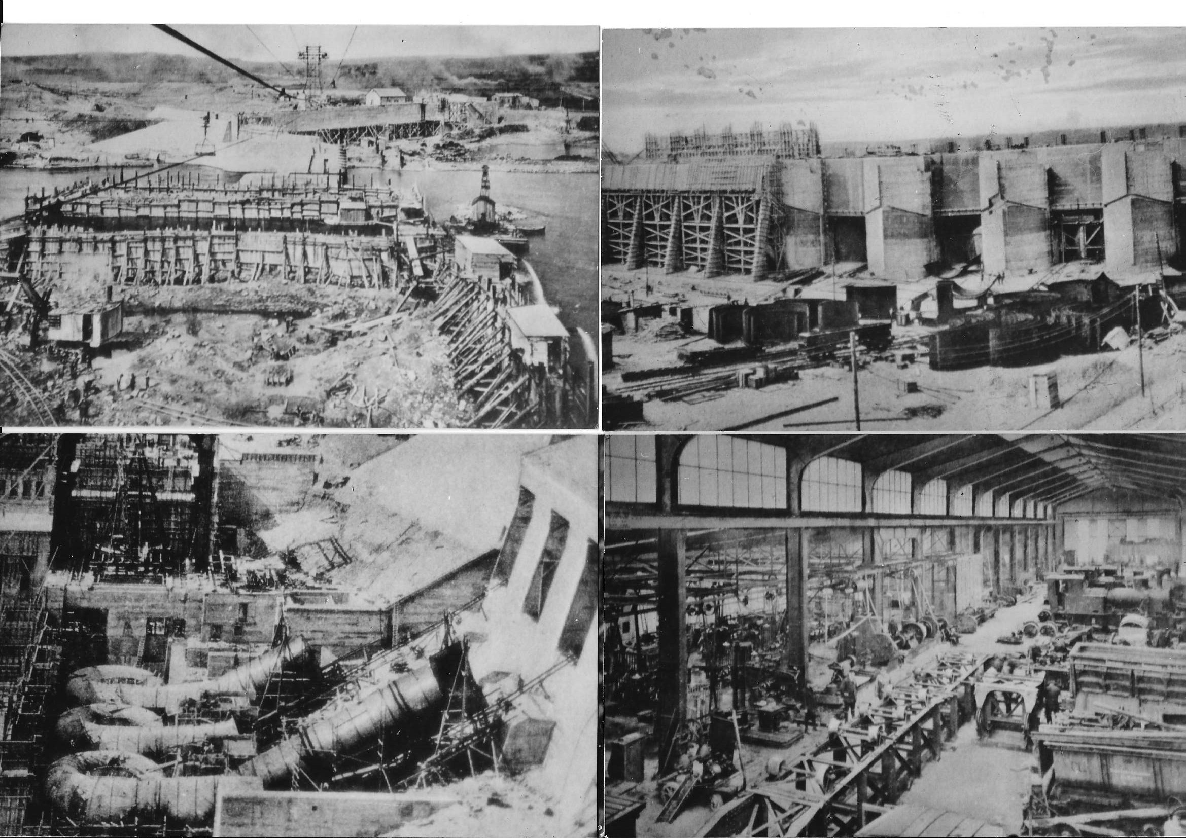 Construction of the main dam and canal